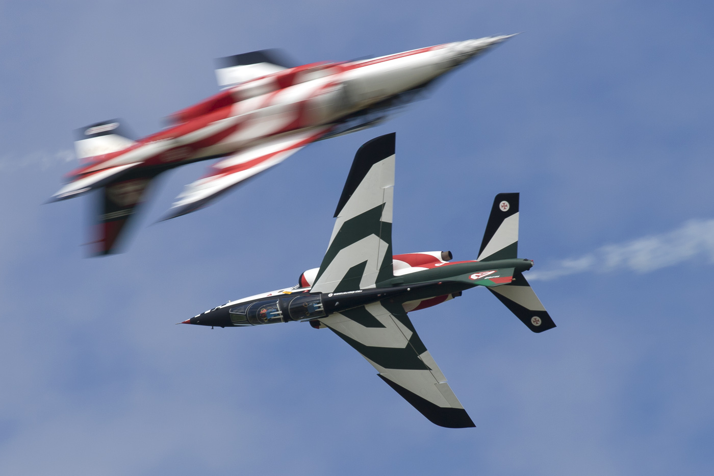 Leeuwarden, 17 June 2006. Asas de Portugal (Wings of Portugal) was created in 1977 to represent the Portuguese Air Force at the IAT at Greenham Common. The team operated the Cessna T-37C for 13 years. In December 1990 one of the team’s Tweeties crashed due to cracks in the wing. Inspection revealed that almost all T-37s suffered from fatigue, which led to the phase-out of all the airplanes. In 1997 and 2001 the team was reactivated for a only short period with Alpha Jets. The Asas de Portugal were reactivated a third time in 2005, and deactivated again in 2010. Source: Wikipedia All 50 Portuguese Alpha Jets are former Luftwaffe. Around 10 are still in service.